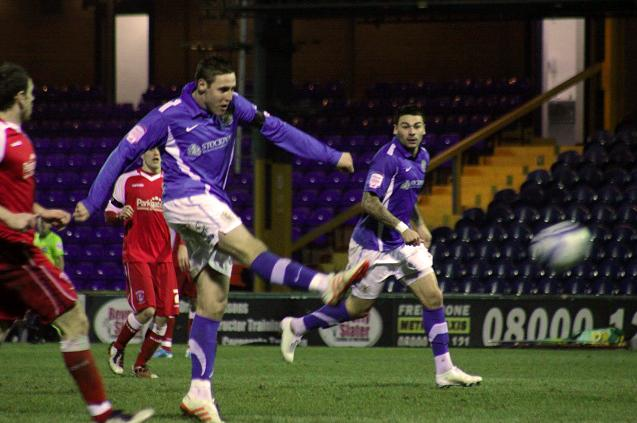 Stephen Husband volley's Stockport County in front in the Football League Two fixture on January 11th, 2011.